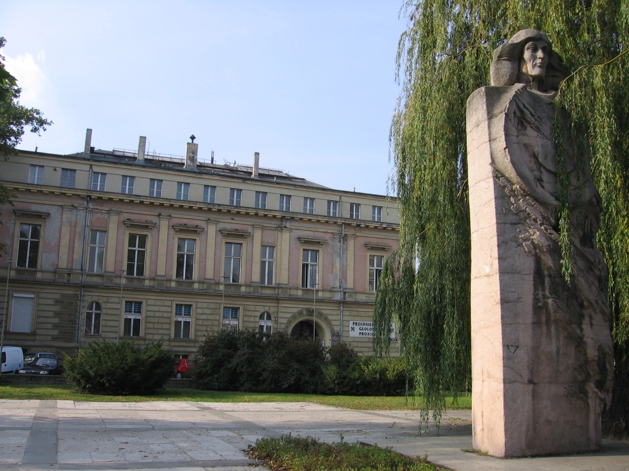 Wrocław, Poland - the memorial of Nicolaus Copernicus in Kopernik's Park near Wierzbowa street; in the background - geological company building